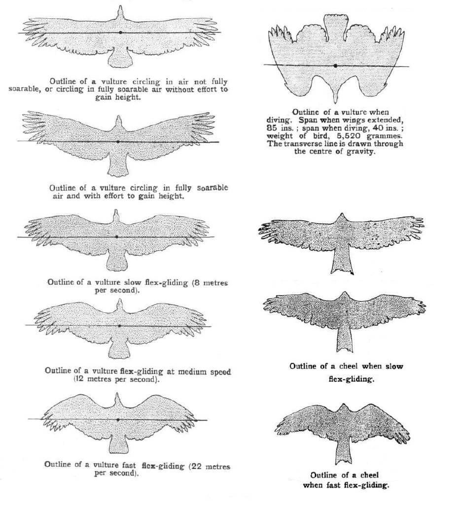 study of wing position of soaring vultures and kites by Ernest Hanbury Hankin